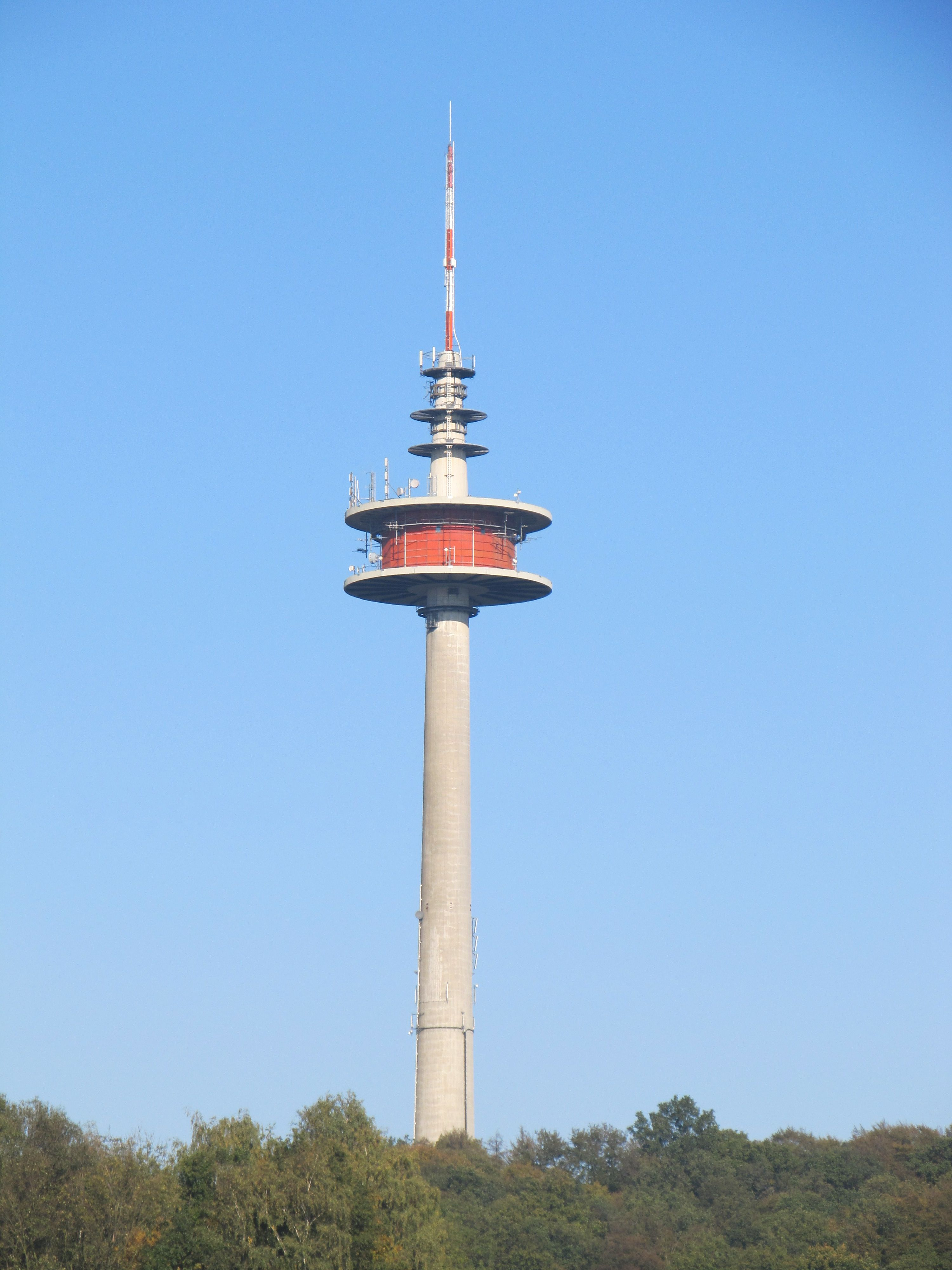 Osnabrück: Transmitter-Tower